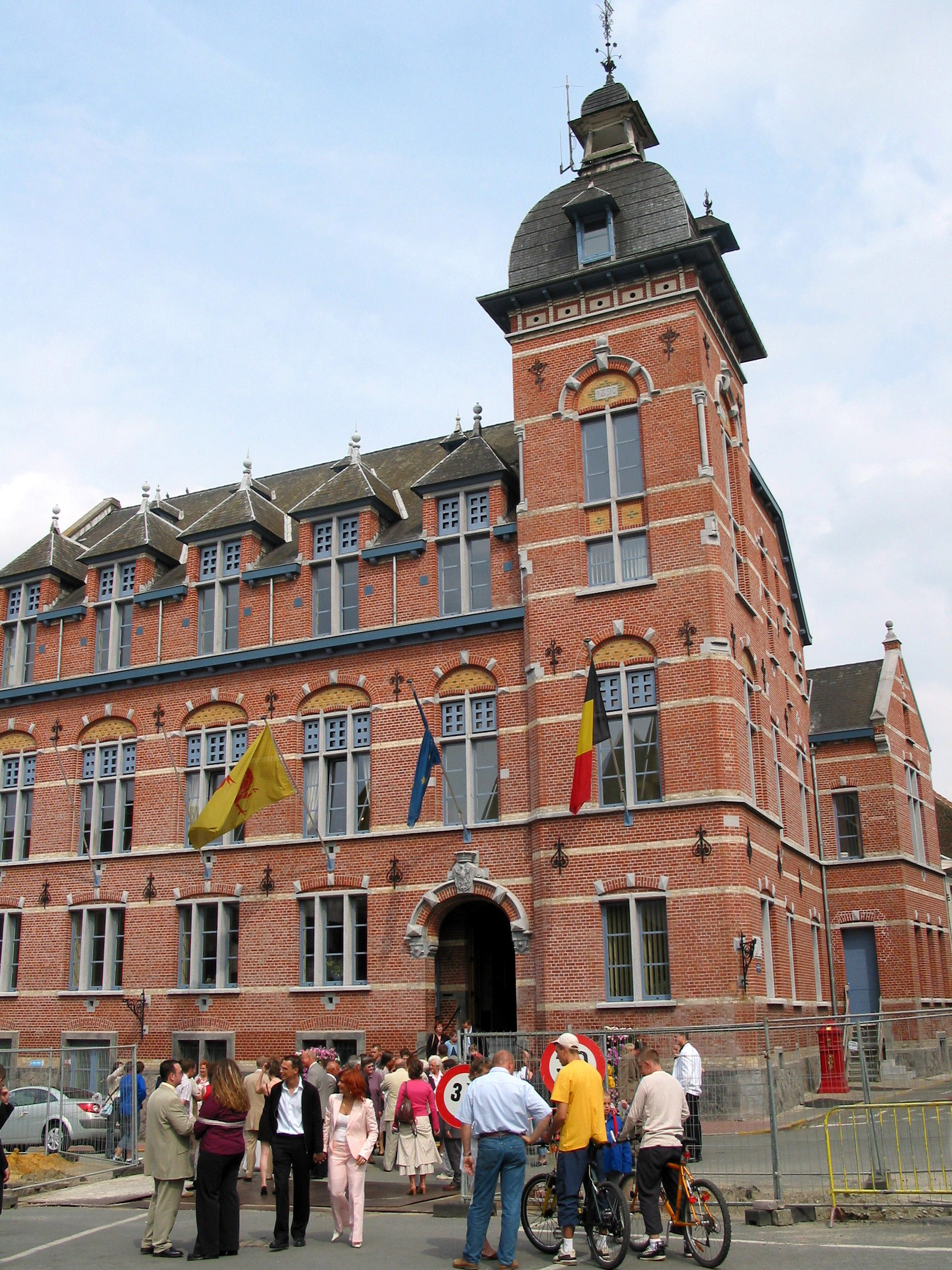 Tubize (Belgium), the town hall.